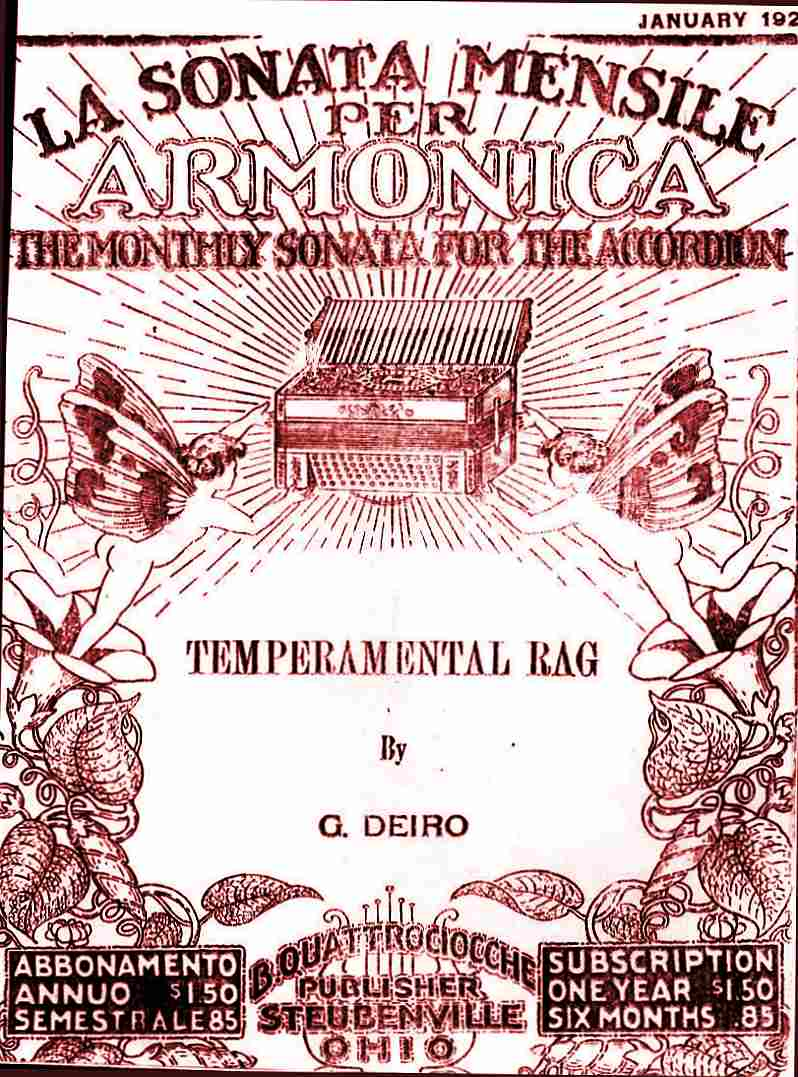 An early accordion-note publication cover page by Biaggio Quattrociocche (1922): Guido Deiro's "Temperamental Rag"